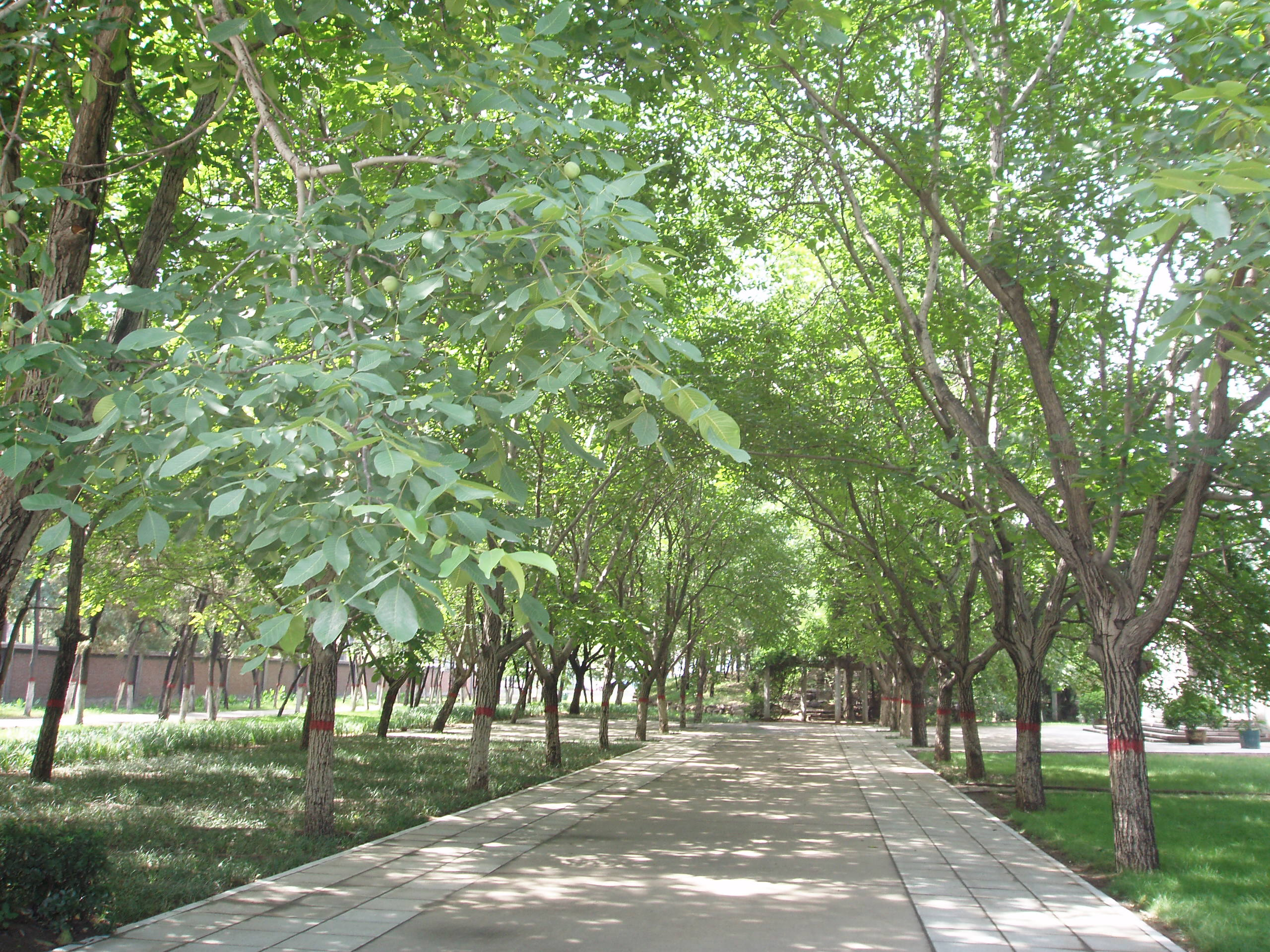 Walnut trees